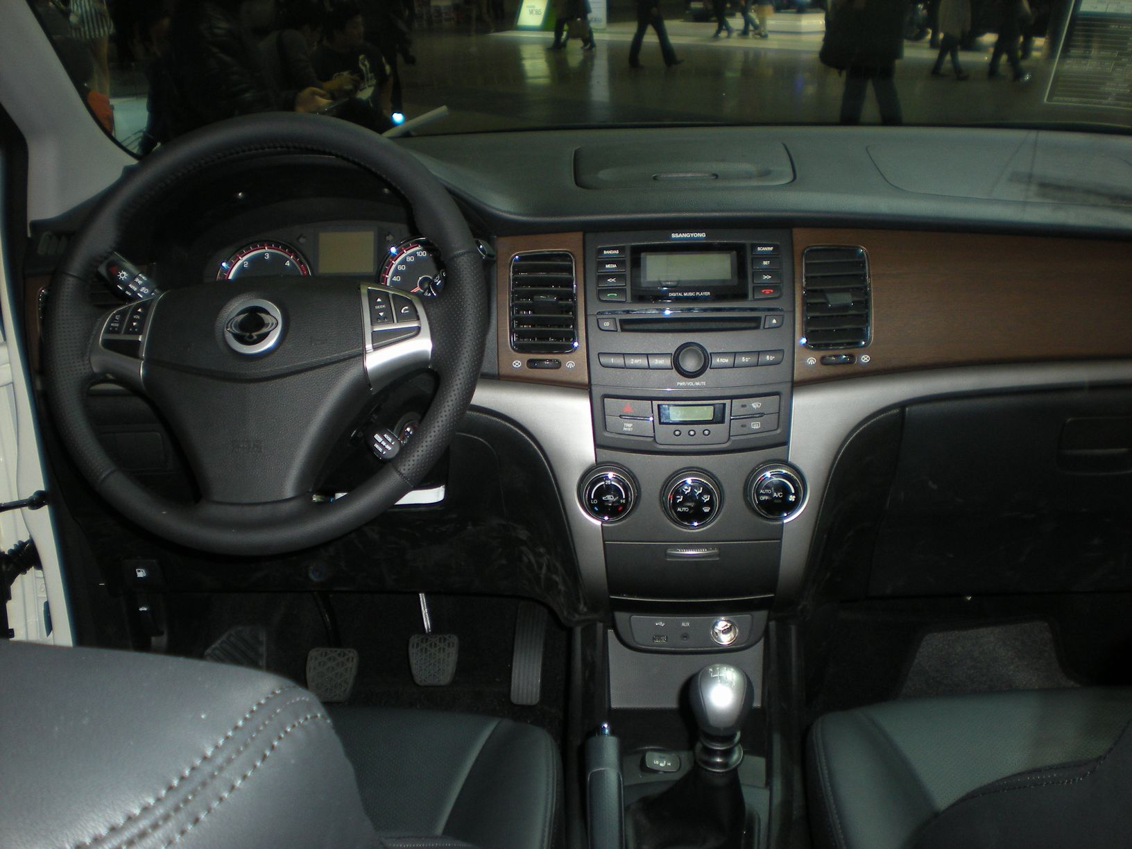 SSANGYONG KORANDO